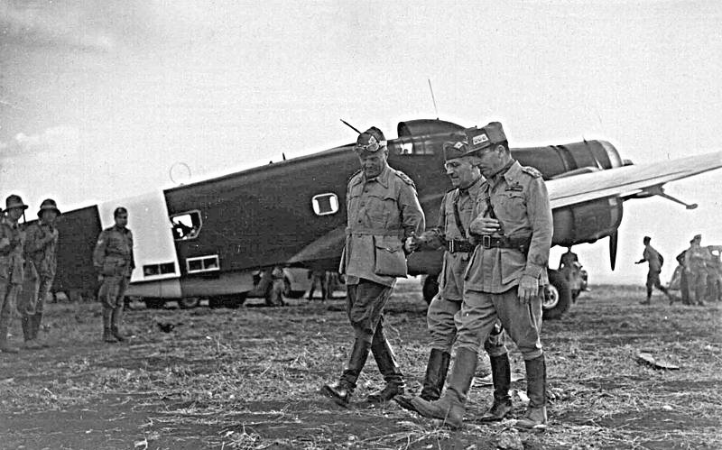 General Ugo Cavellero and General Ettore Bastico in North Africa